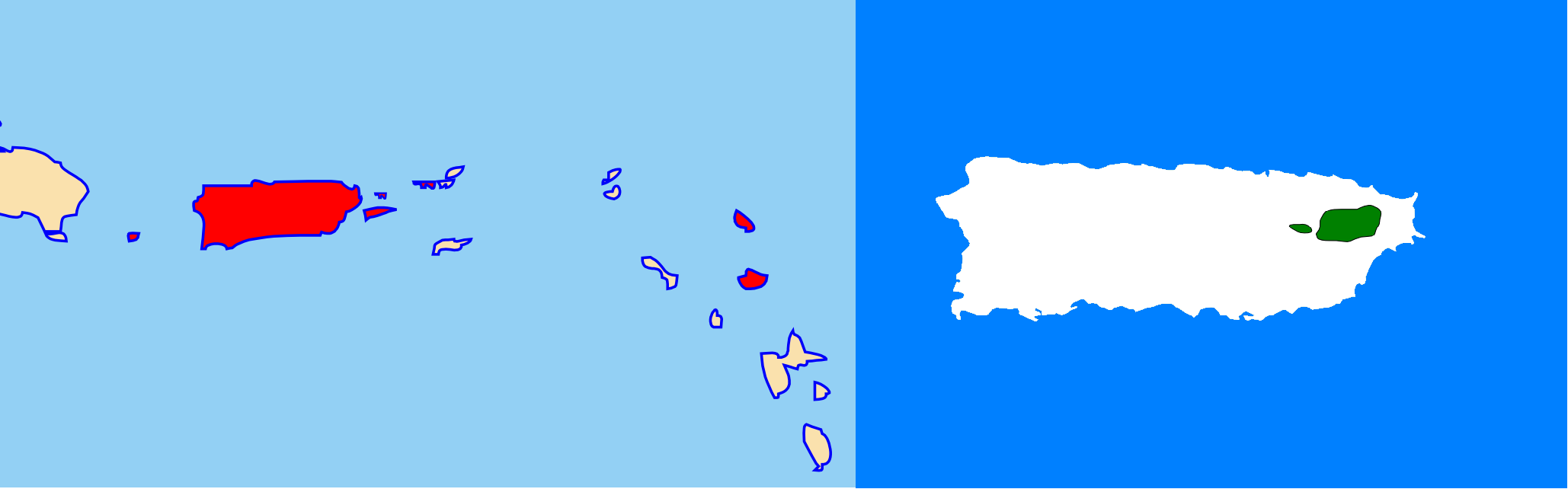 Amazona vittata range. Historical in red (left) and current in green (right)